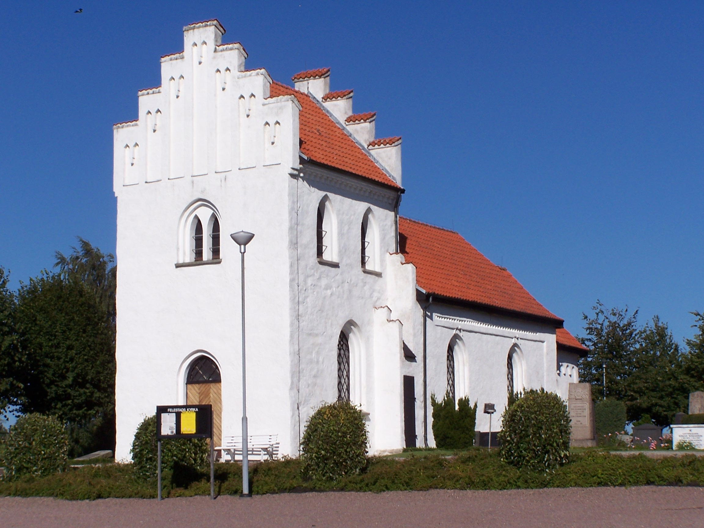 Felestads kyrka - Exterior from southwest.